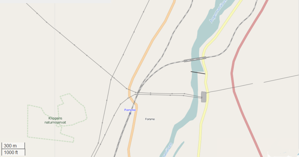 Open Street Map showing the Forsmo Rail Bridge in Sweden.